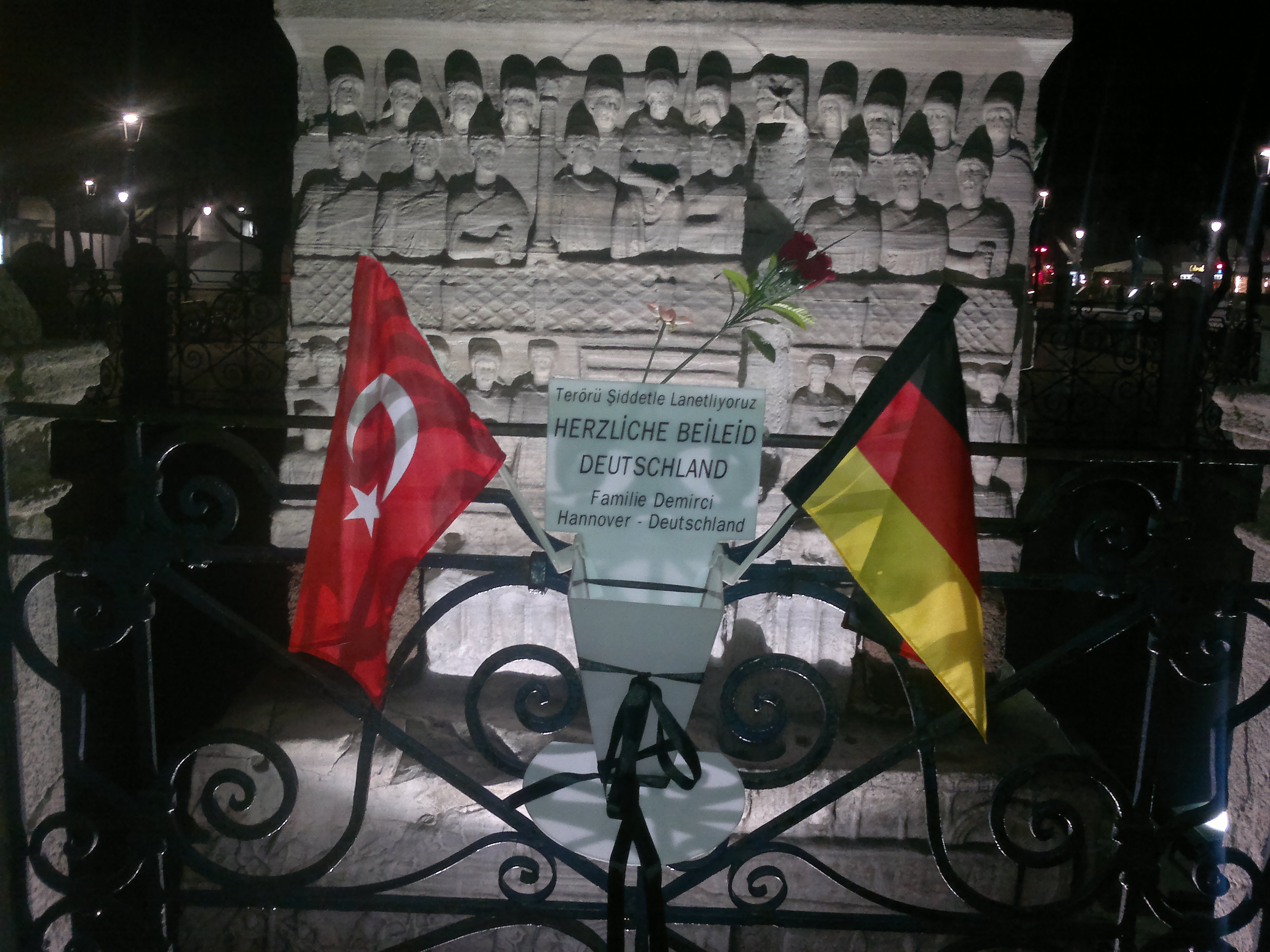 Commemoration of Istanbul terroristic act. 2016